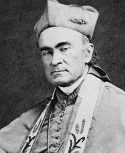 John Baptist Purcell, Archbishop of Cincinnati 1833-1883